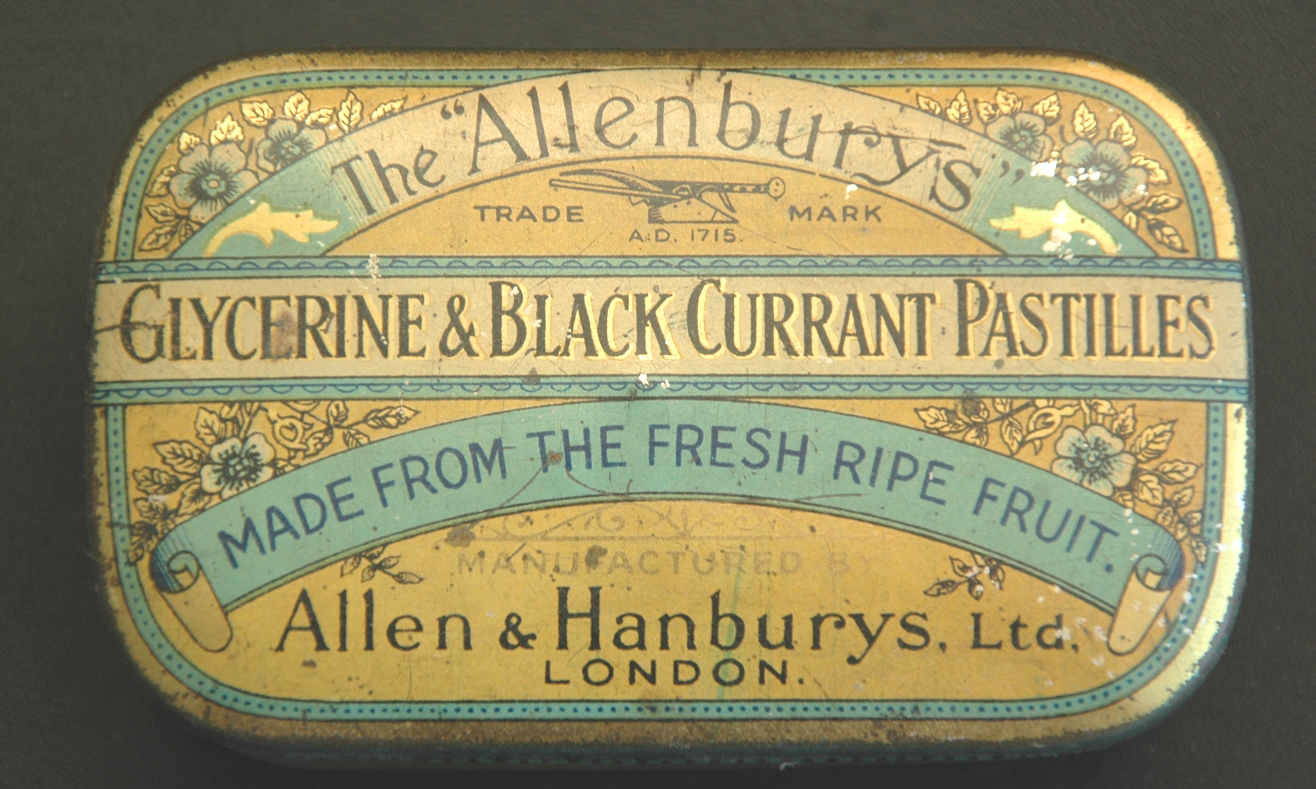 Metal box for Allen & Hanburys blackcurrant pastilles